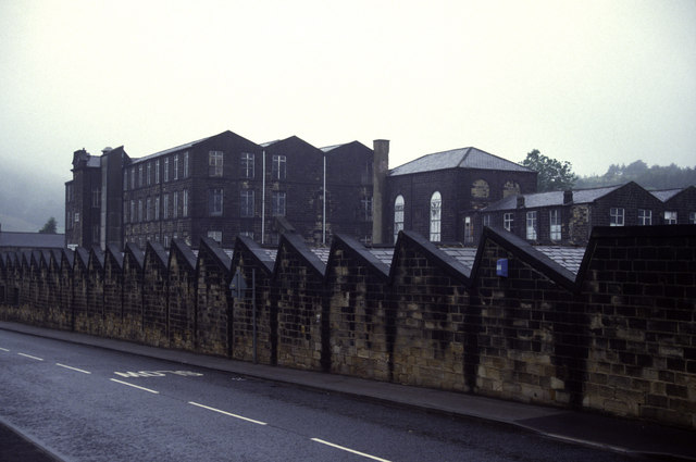 Hollins Mill, Walsden Steam powered integrated cotton spinning & weaving mill built in 1856-8. Four storey, 18 bay mill and attached single storey weaving shed powered from the central engine house. Horrid misty day.